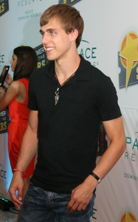 Cody Linley at the Summer with the Stars, Red Carpet in 2011 Camera: Canon EOS Digital Rebel XTi License on Flickr (2011-07-27): CC-BY-SA-2.0